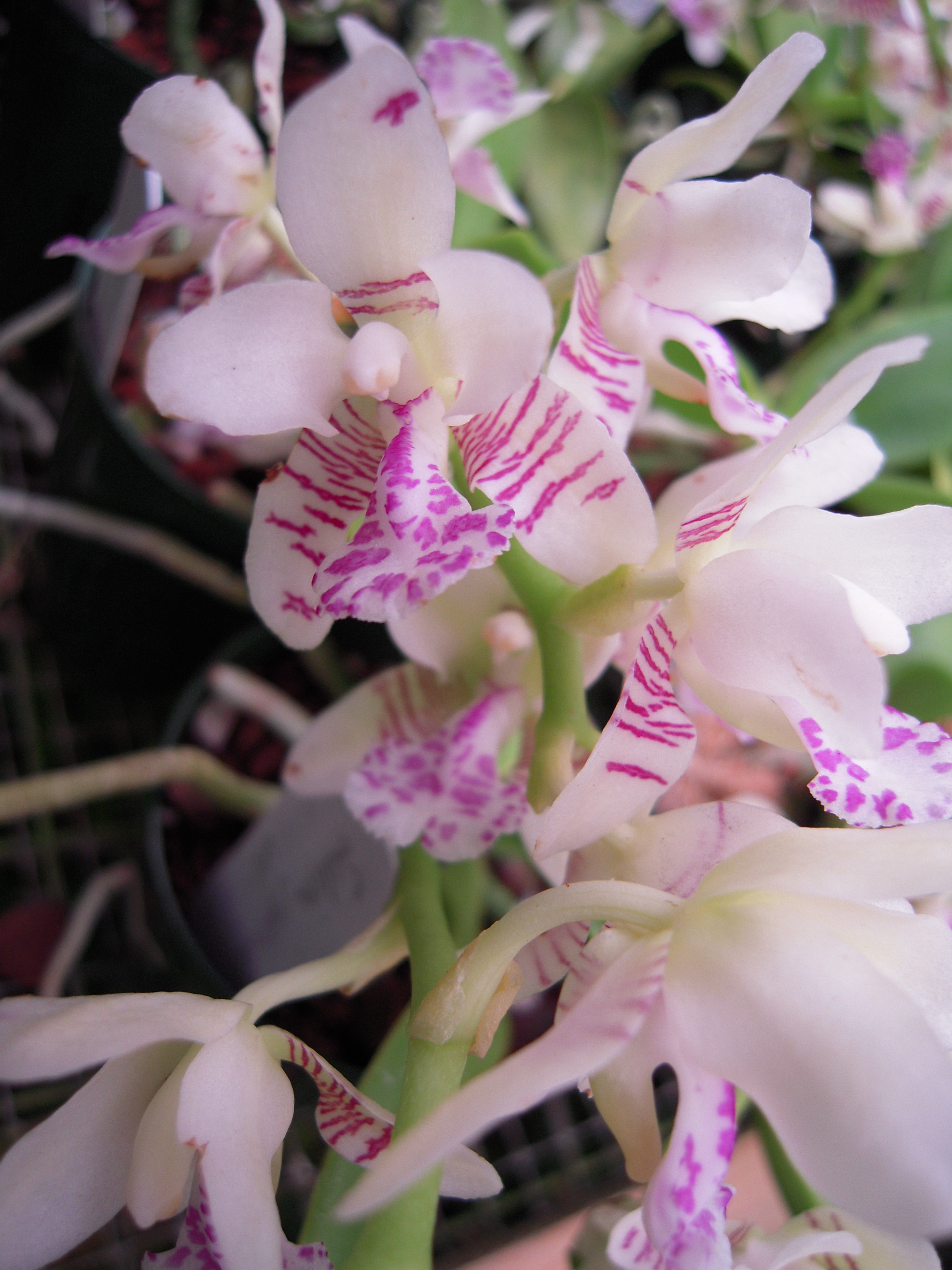 Sedirea japonica - Taken at J&L Orchids, CT 2008.